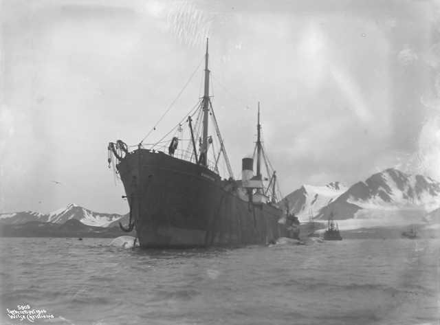 Norwegian whaling factory Bucentaur (1875) in Bellsund, Spitsbergen.